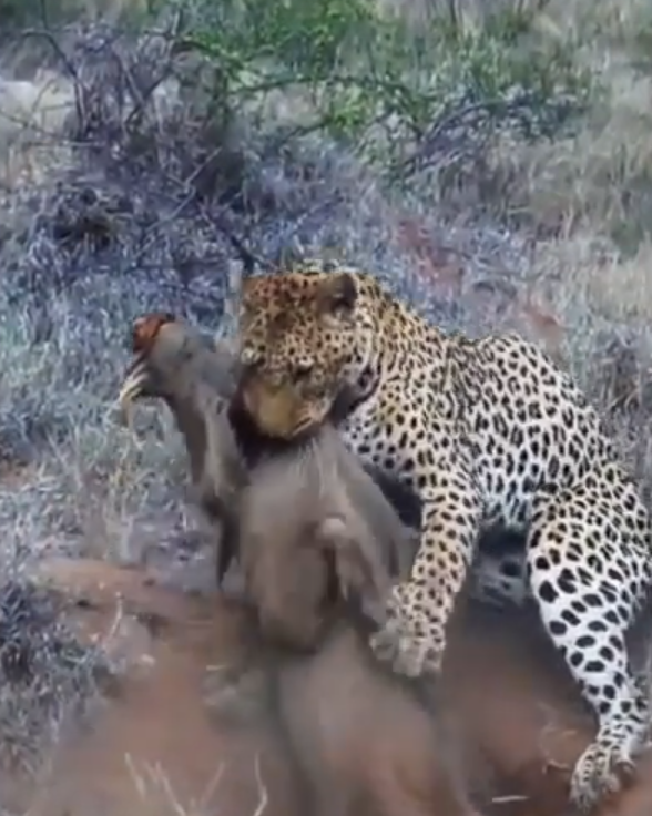 Leopard dragging warthog out of its burrow in Klaserie Game Reserve